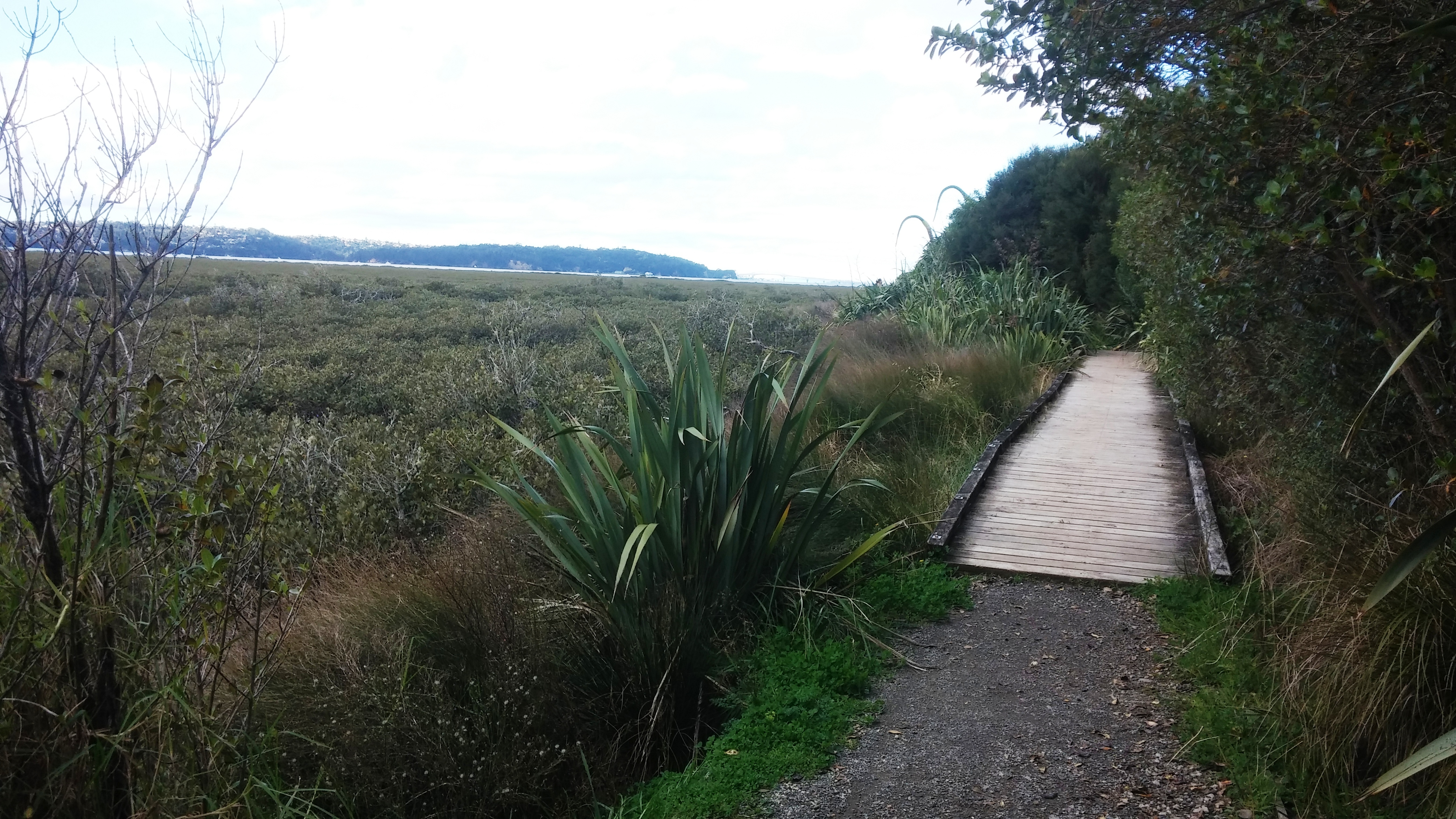 Walkway on Chapman Strand, Te Atatū Peninsula, Auckand